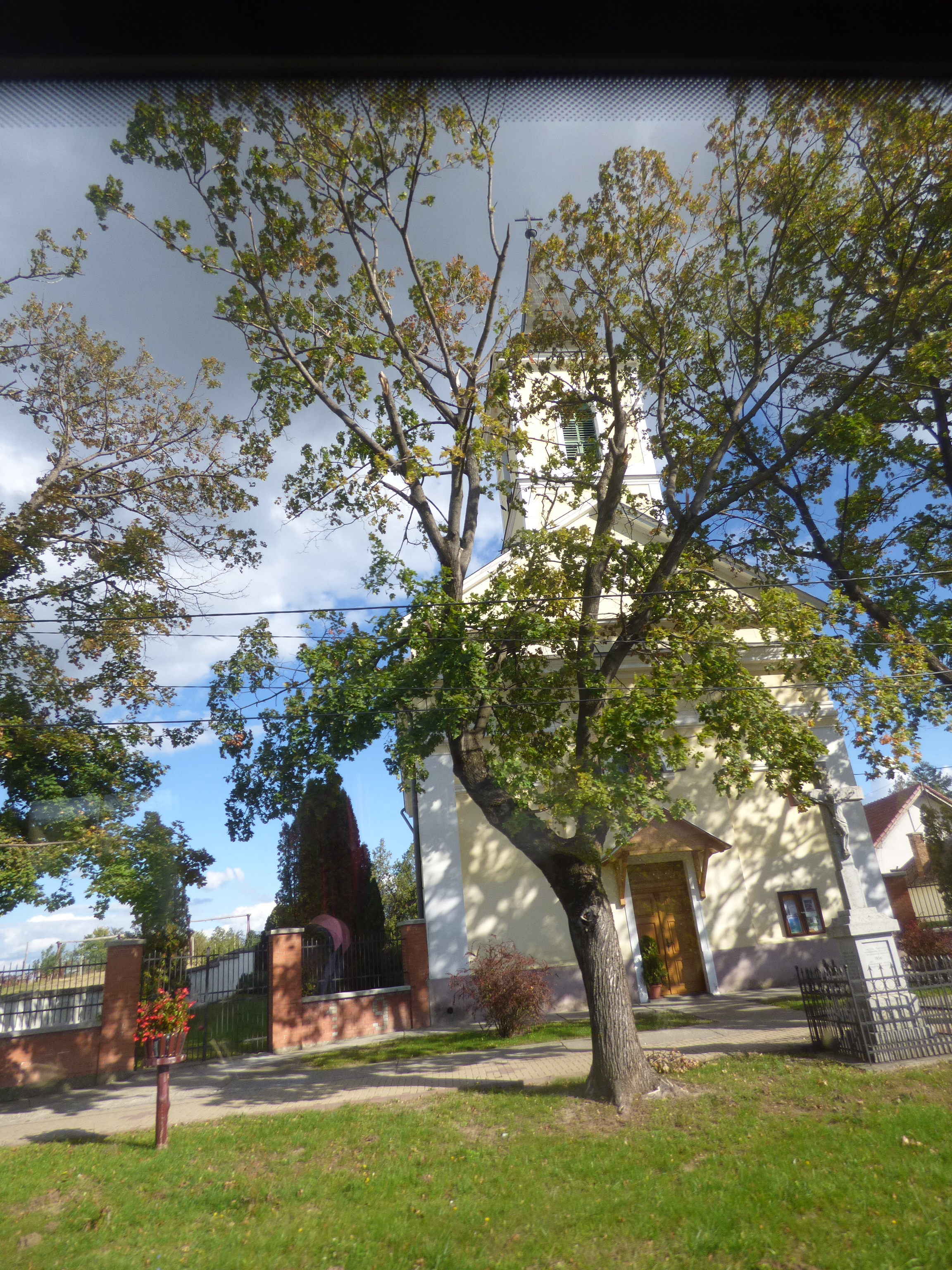 Érsekcsanád római katolikus temploma